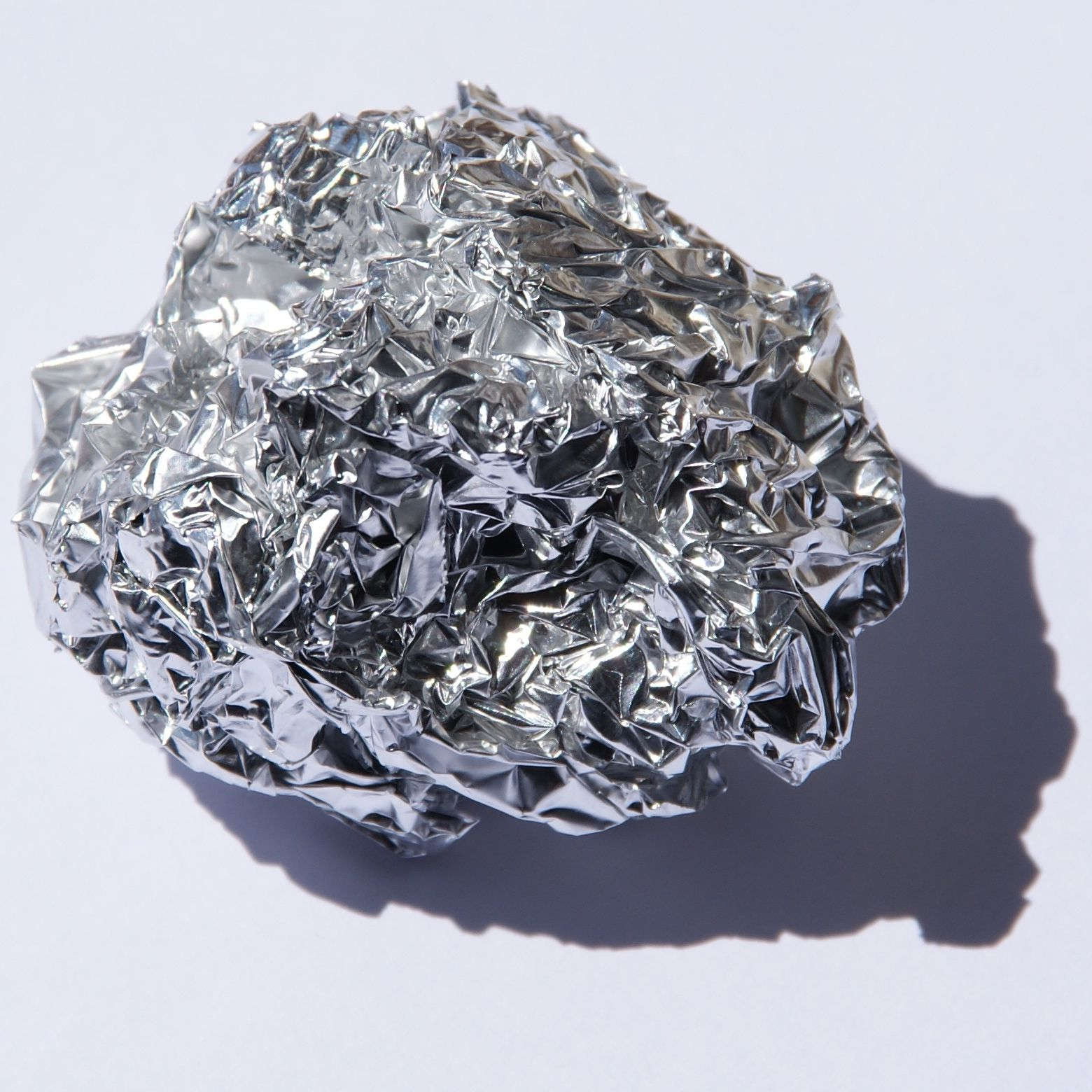 Aluminium foil